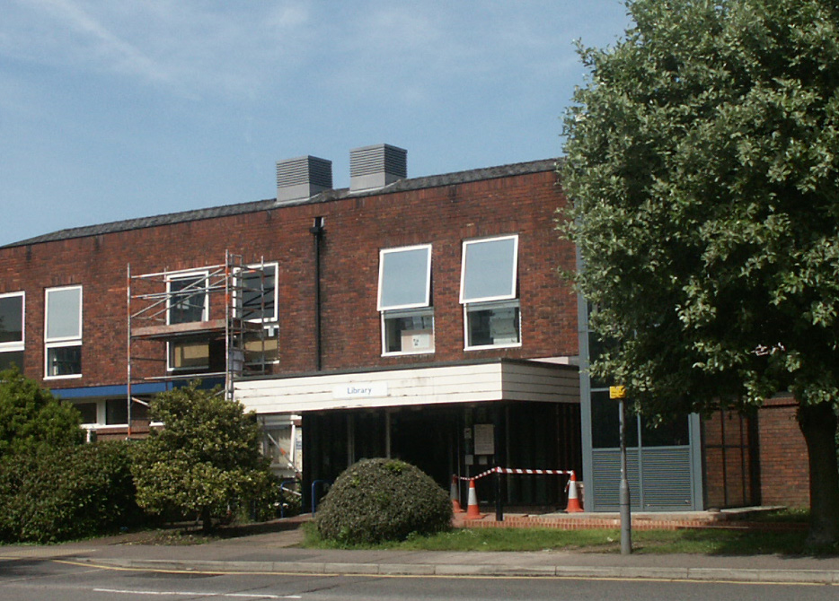 Chesham Library.